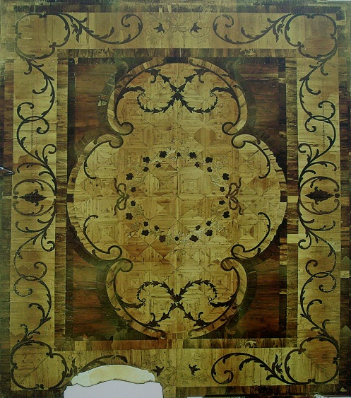 Parquetry of the Blue drawing room in the Chinese palace (Oranienbaum, Russia)